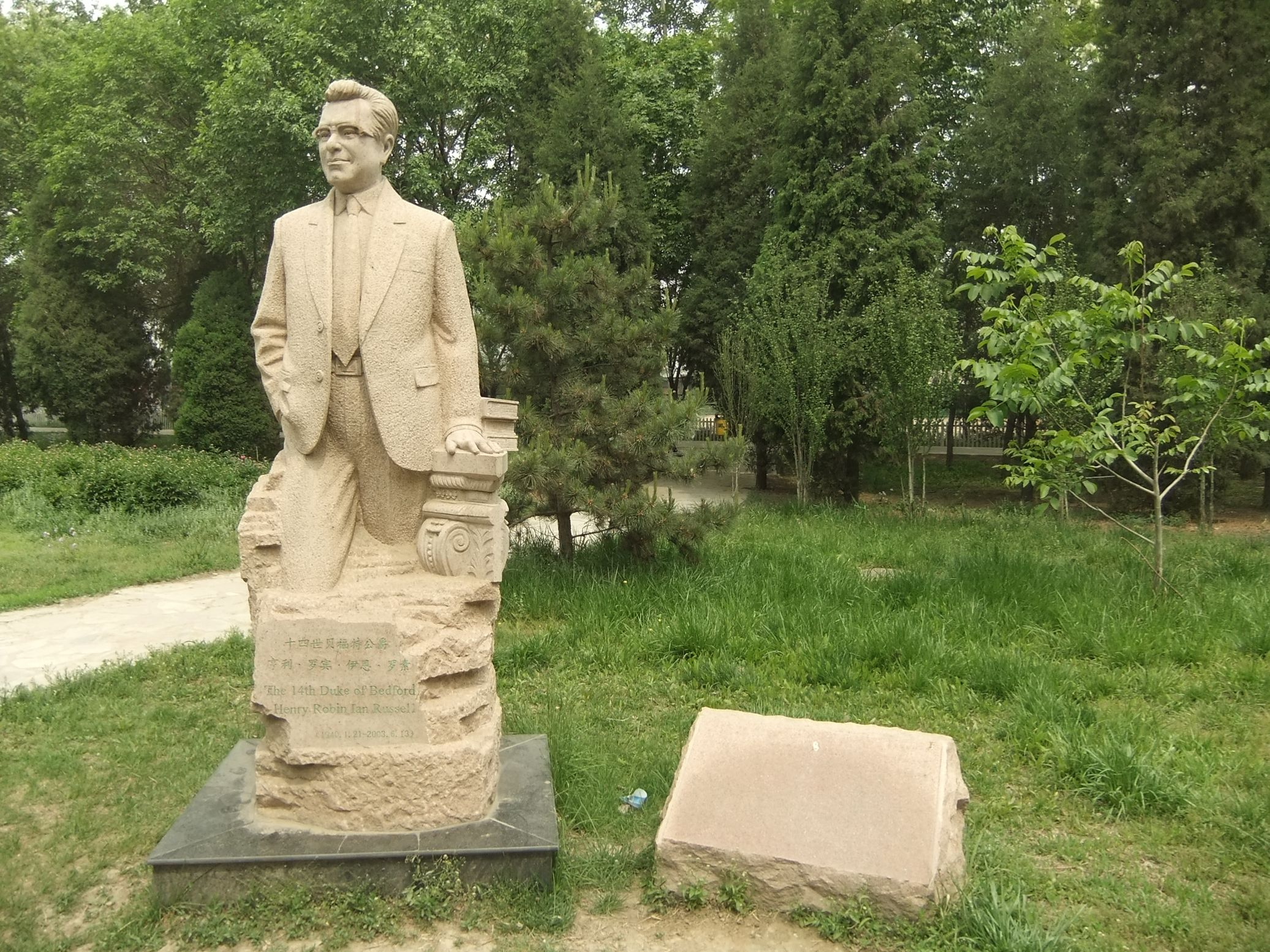 十四世贝福特公爵 - The 14th Duke of Bedford - 2011.05